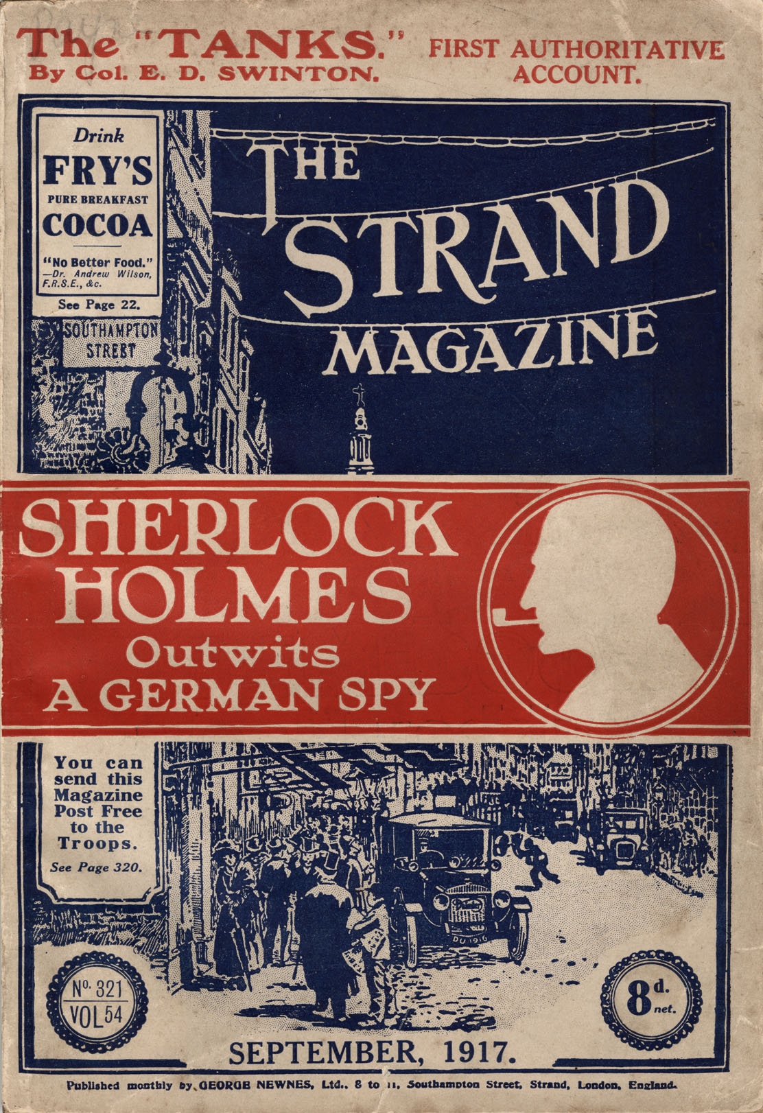 Title: The Strand Magazine, vol. 65, no. 321, September 1917 Creator: Arthur Conan Doyle Date: 1917 Published: London: George Newnes, Ltd. Identifier: Strand_Vol54_n321; L6_the_strand sept 1917 cover Format: Magazine Rights: Public domain Courtesy: Toronto Public Library Arthur Conan Doyle did his part to raise wartime moral by continuing to provide The Strand with the public's favoured reading material. This issue contains the Holmes story "His Last Bow." This image is available from the Toronto Public Library under the reference number Strand_Vol54_n321; L6_the_strand sept 1917 cover This tag does not indicate the copyright status of the attached work. A normal copyright tag is still required. See Commons:Licensing for more information. English | français | +/−